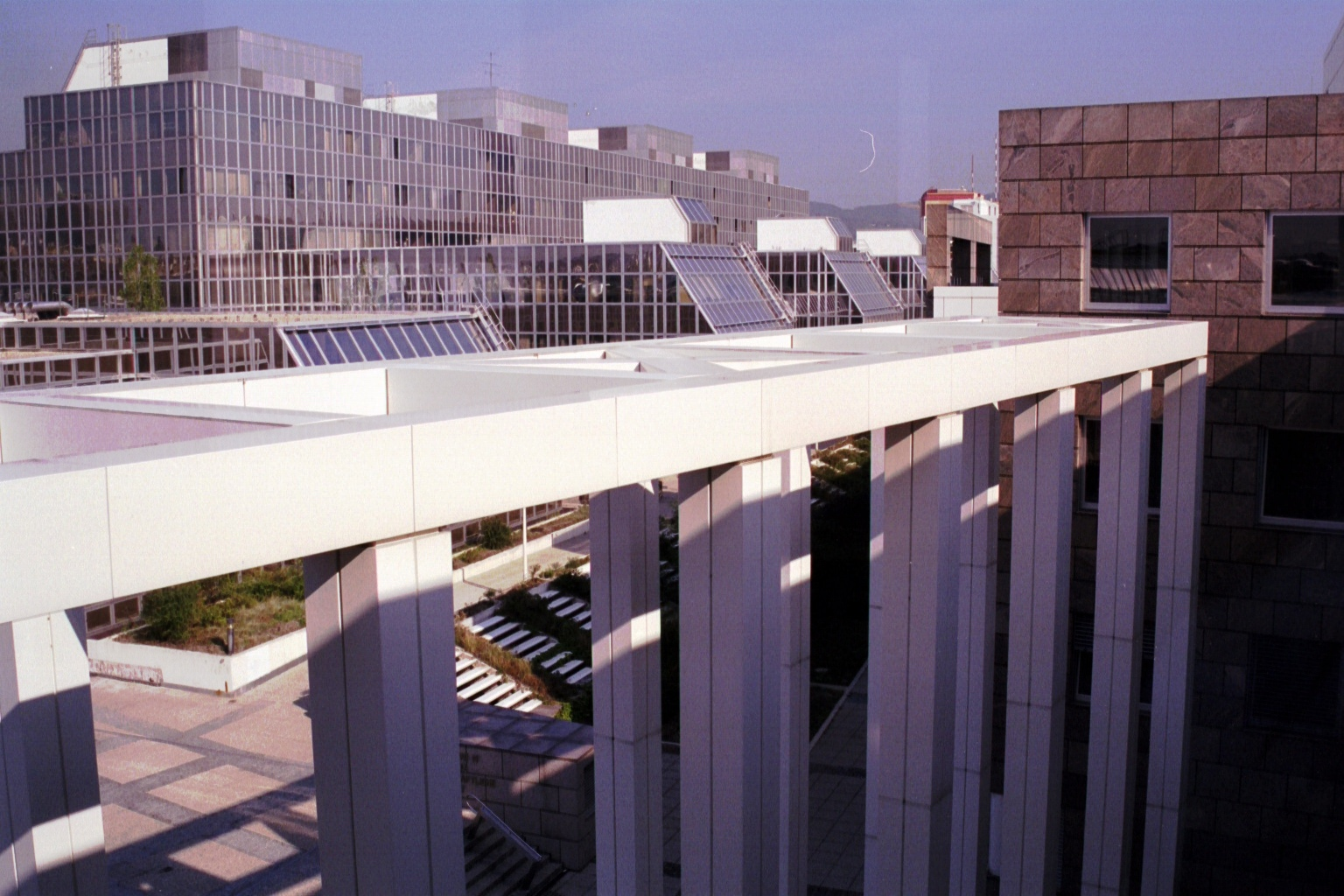 Pharma-Center